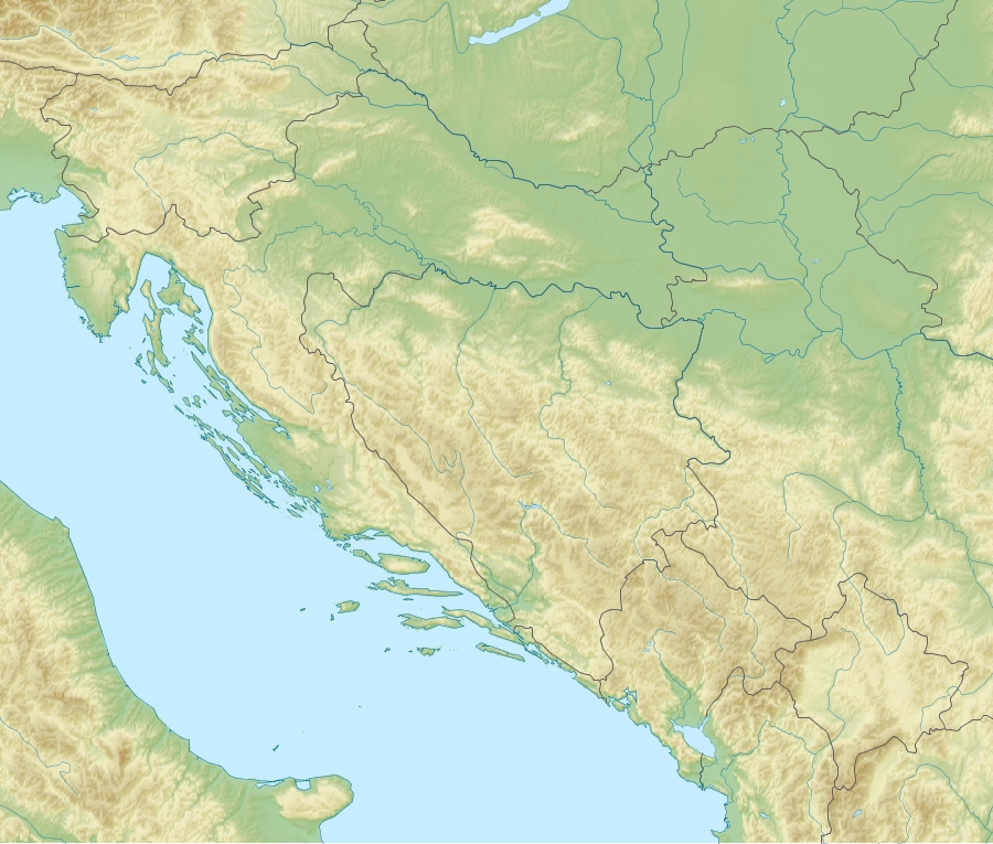 Location map of Dinarides. Projection: Equirectangular projection, strechted by 139.0%. Geographic limits of the map: N: 47.0° N S: 41.5° N W: 13.0° E E: 22.0° E GMT projection: -JX15.24cd/12.945533333333334cd GMT region: -R13.0/41.5/22.0/47.0r GMT region for grdcut: -R13.0/41.5/22.0/47.0r Relief: SRTM30plus. Made with Natural Earth. Free vector and raster map data @ .